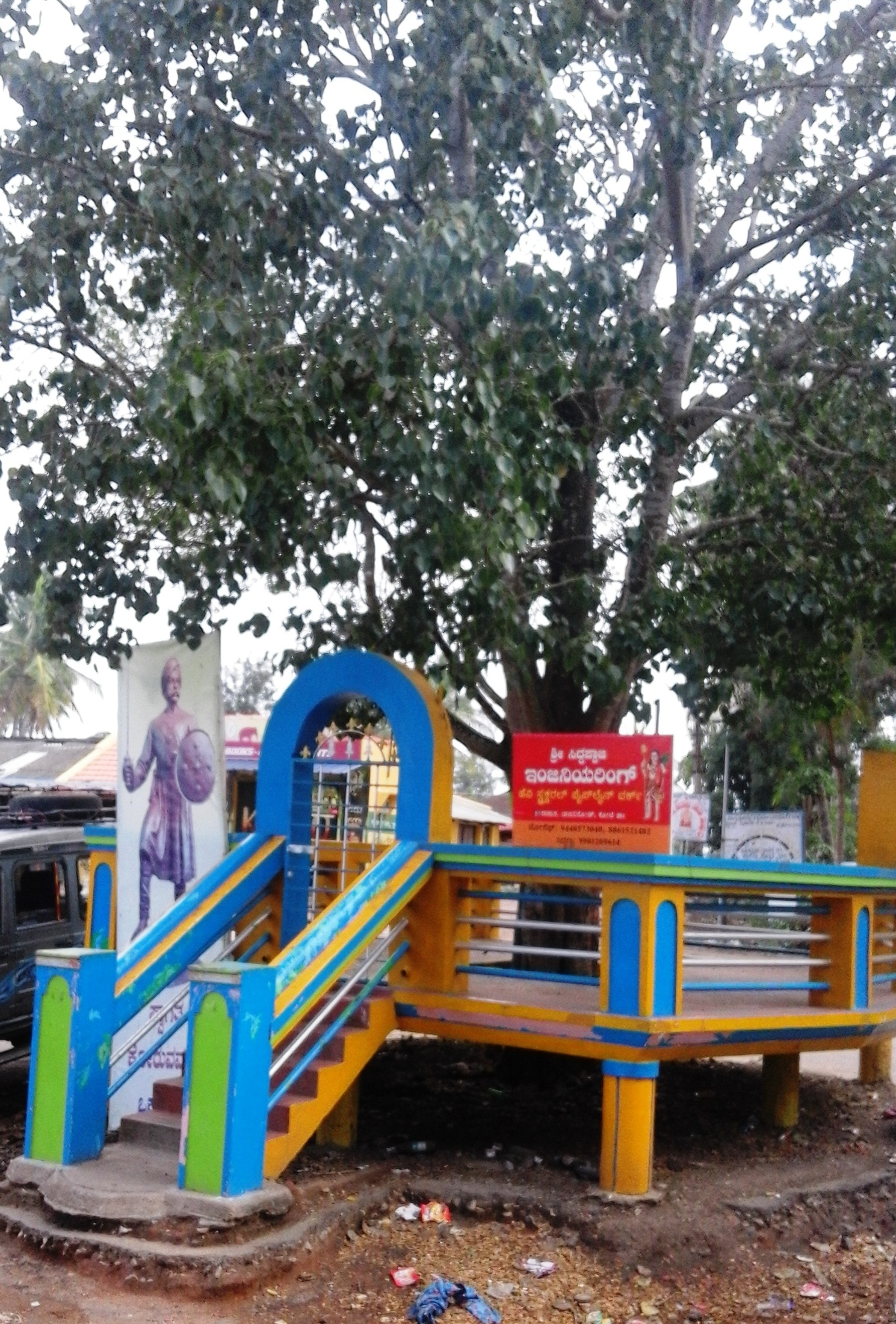 Heggadadevanakote Taluk, Mysore district, Karnataka state, India.